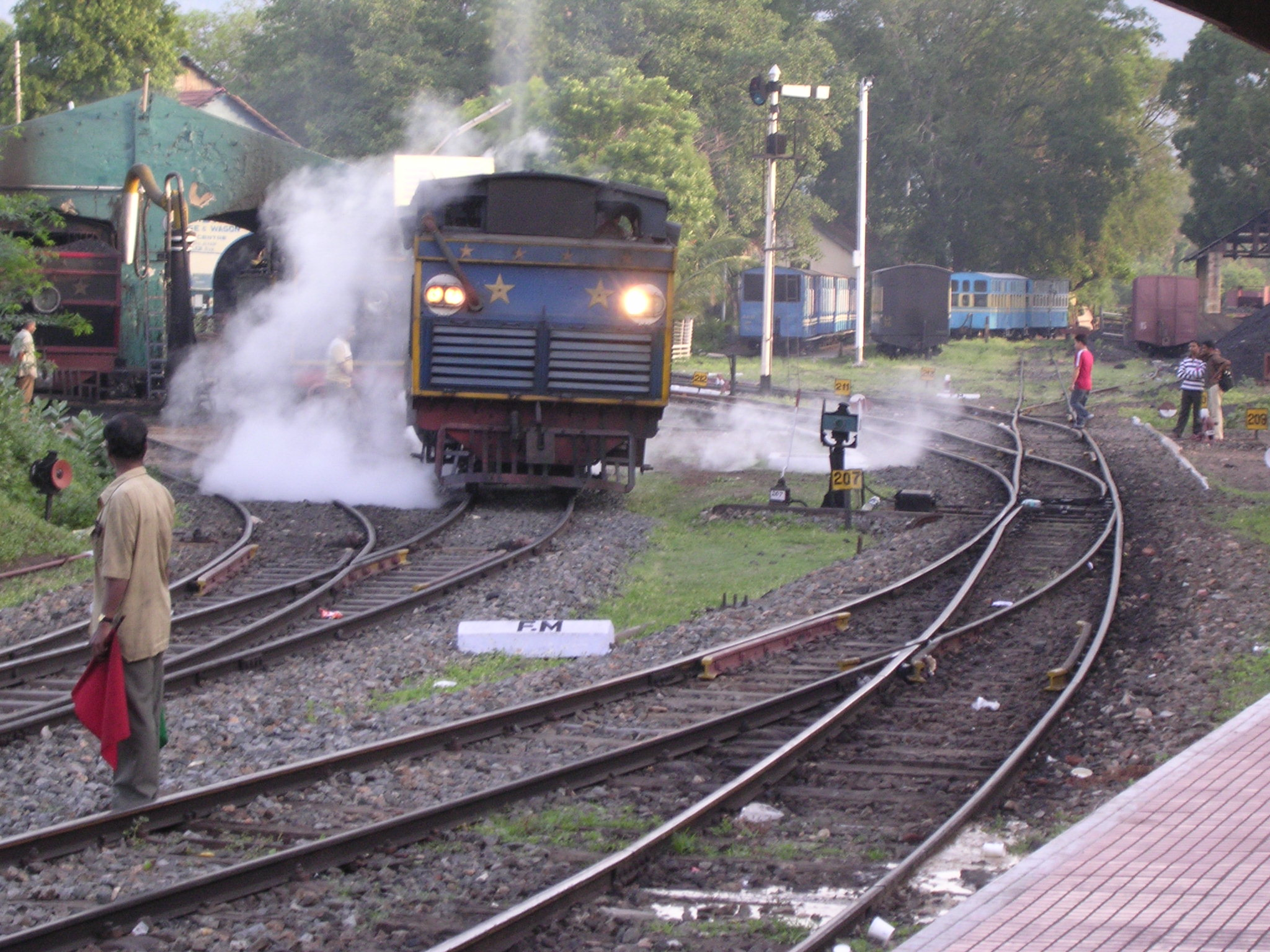 taken at Mettupalayam